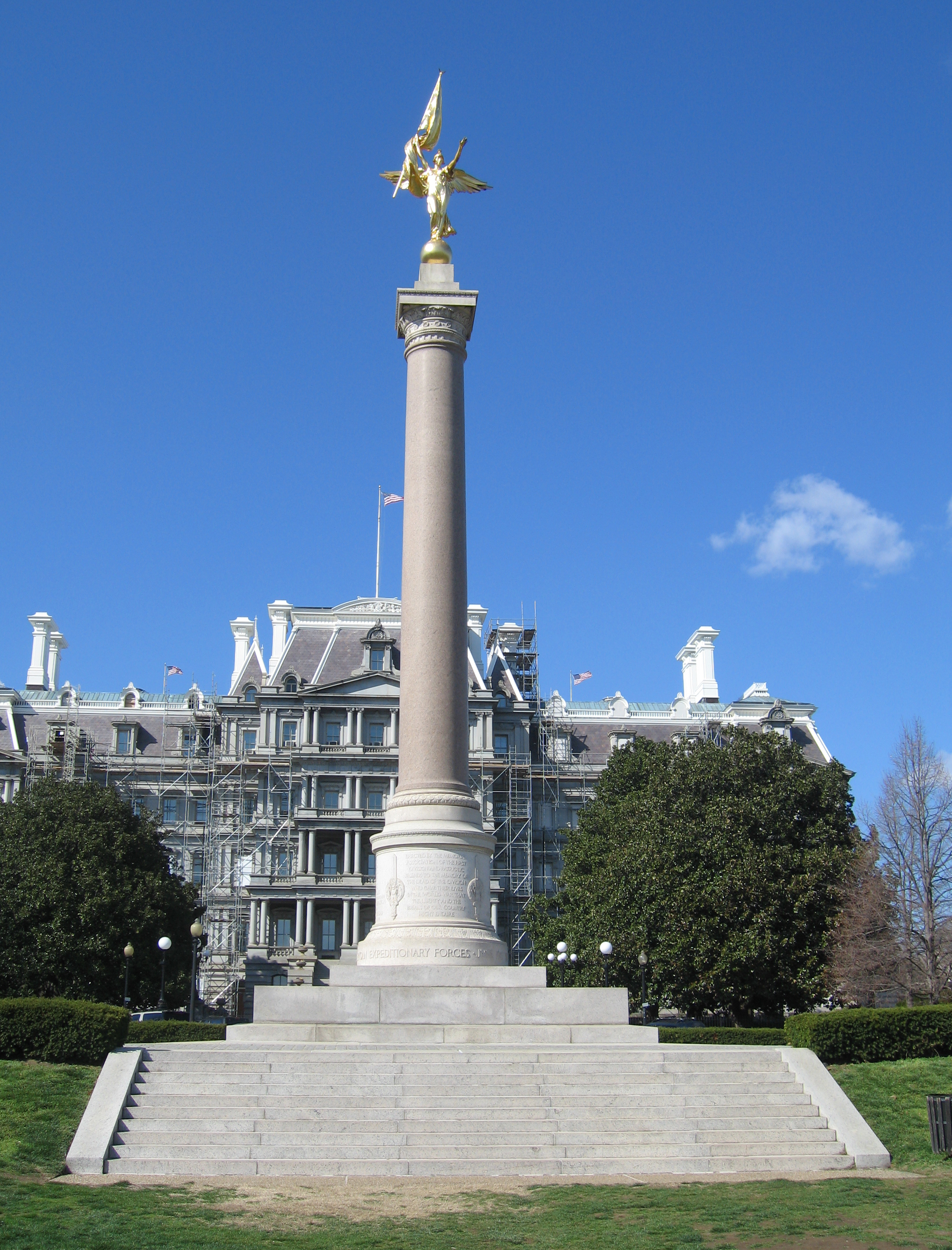 Front view of the First Division Monument located in President's Park, south of State Place Northwest between 17th Street Northwest and West Executive Avenue Northwest in Washington, D.C., United States. The building in the background of the photograph is the south side of the Dwight D. Eisenhower Executive Office Building. Photograph taken in March 2008 facing north.